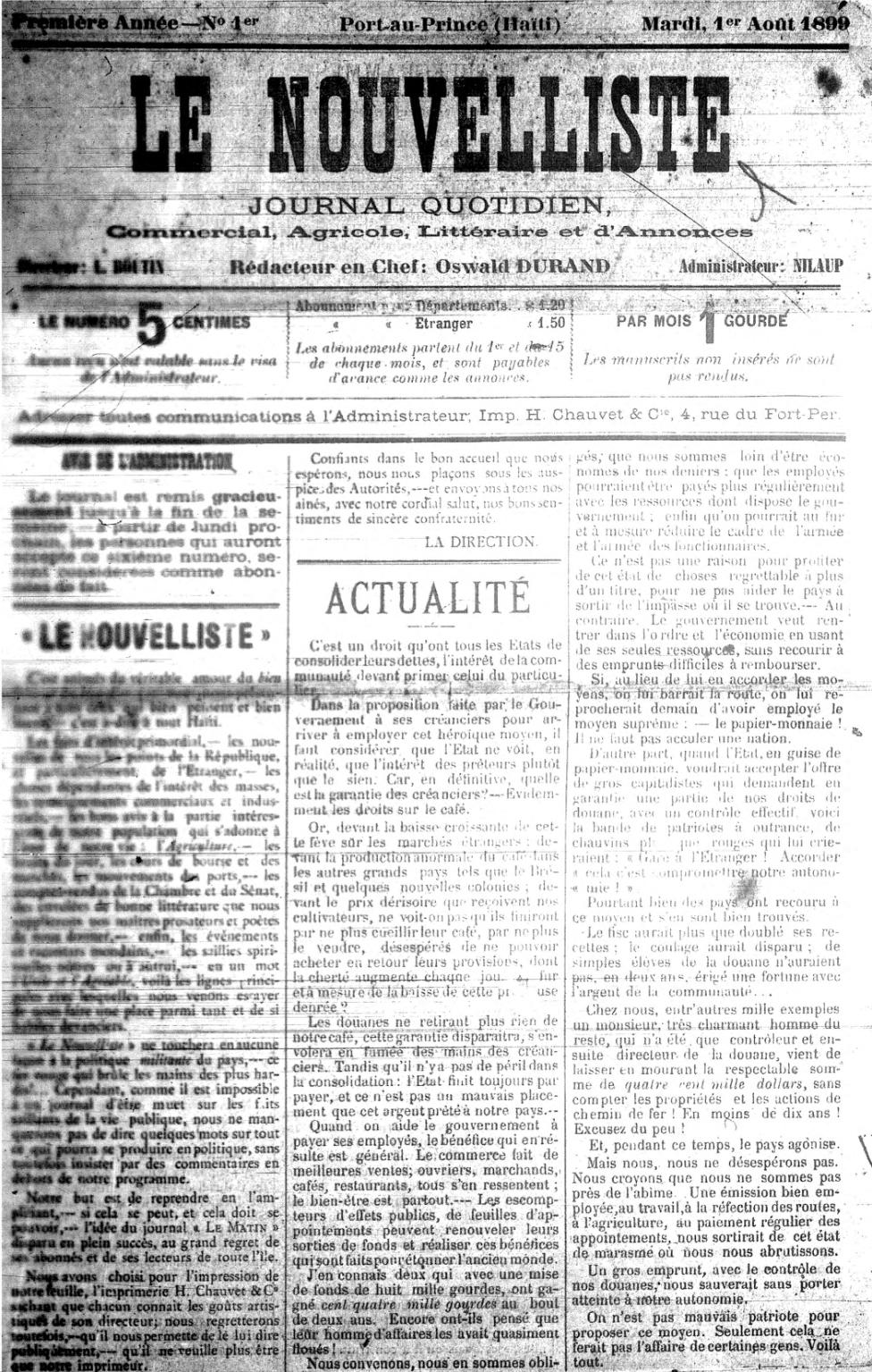 Front page of the first issue of Haitian newspaper Le Nouvelliste, August 1st, 1899